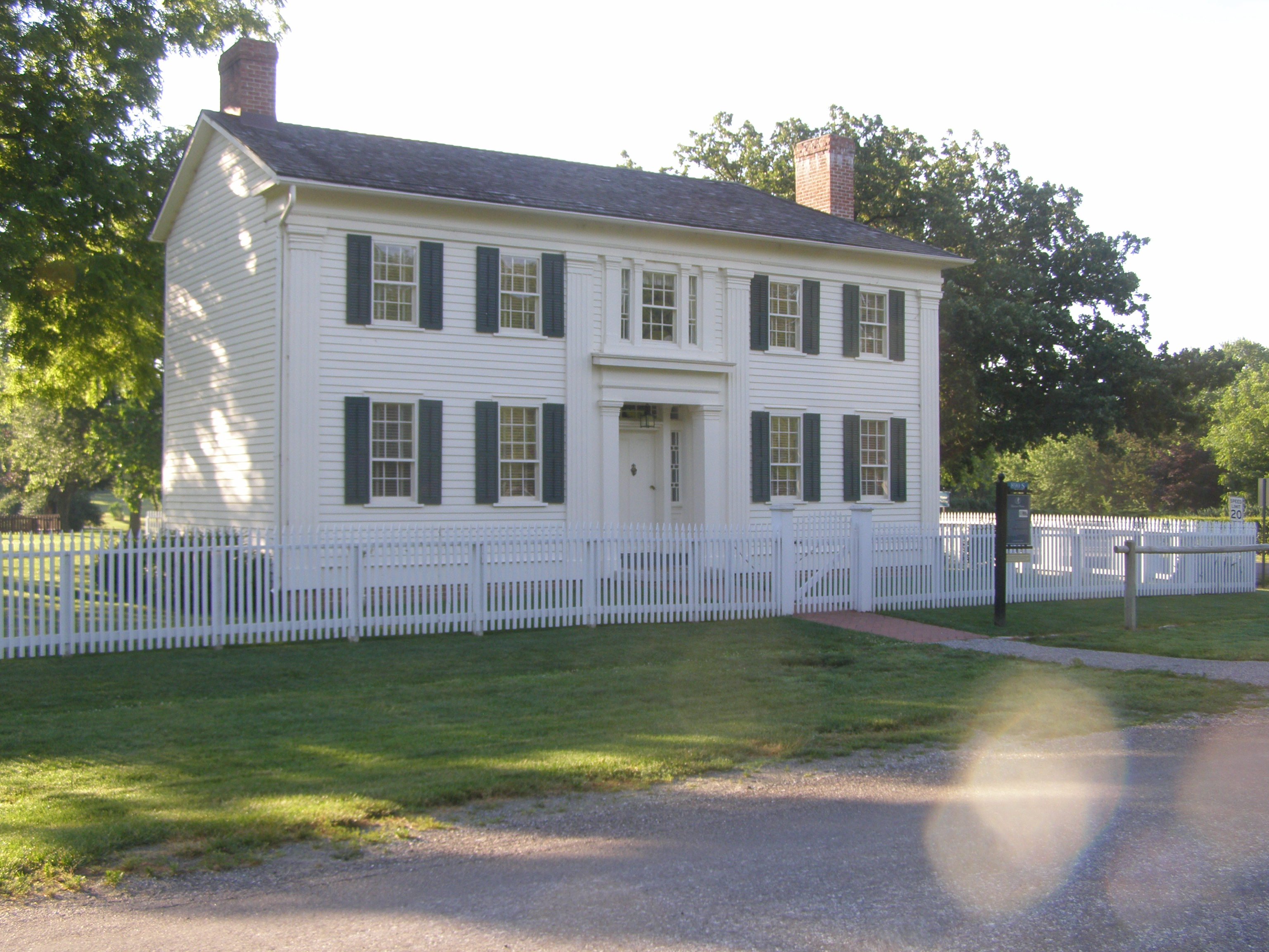 Joseph & Emma's Mansion House, 890 Main St, Nauvoo, Illinois.